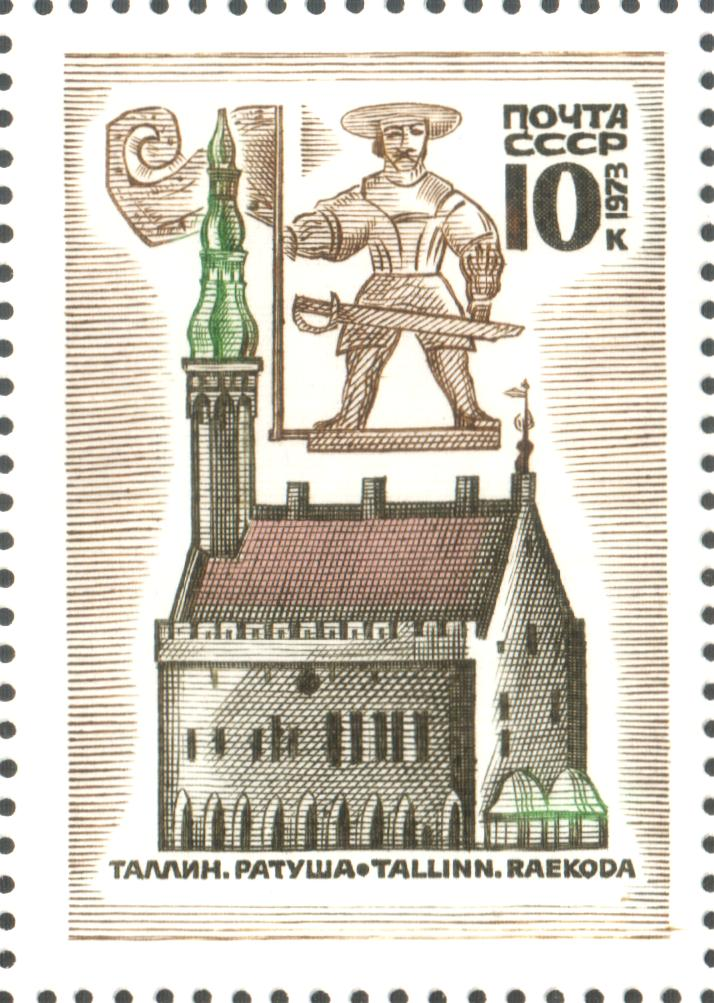 USSR stamp